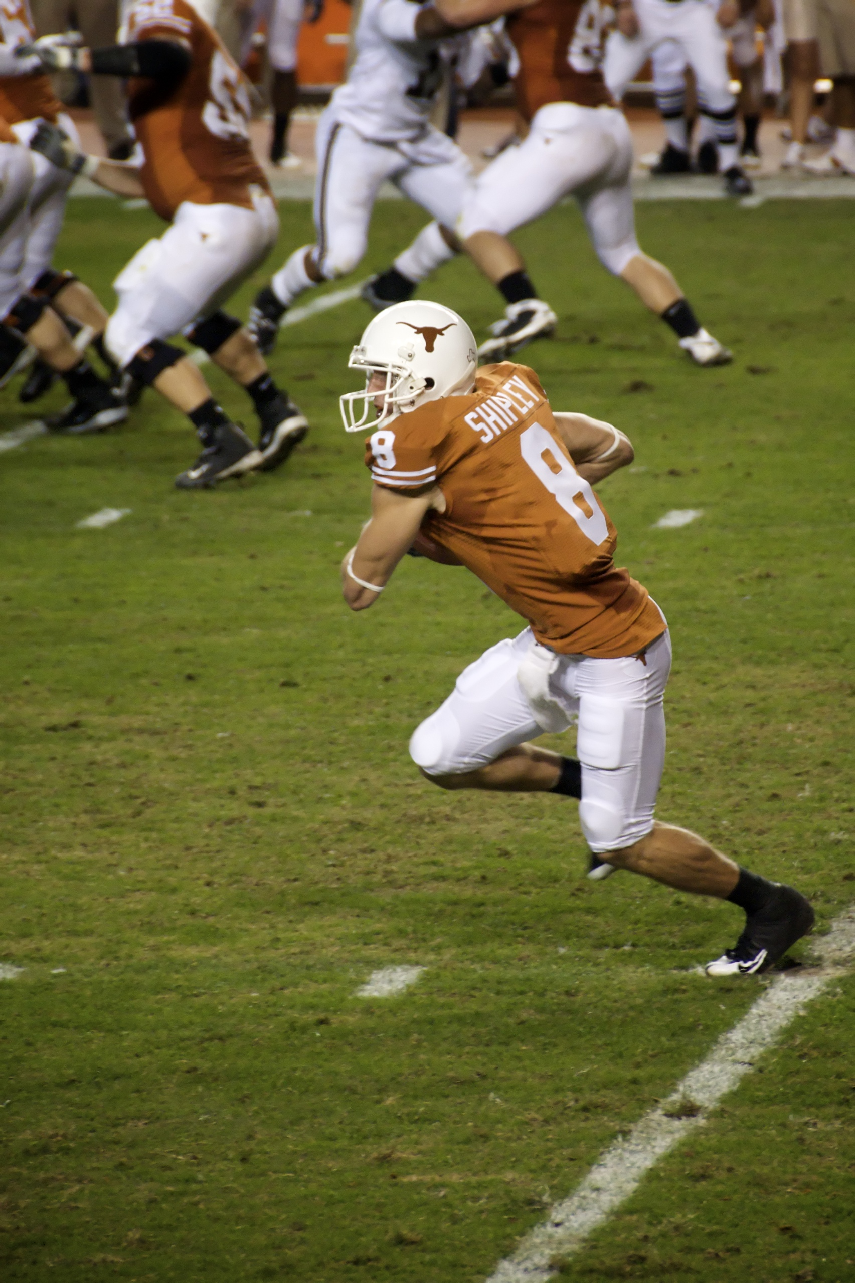 Jordan Shipley at the 2008 Texas vs. Texas A&M game